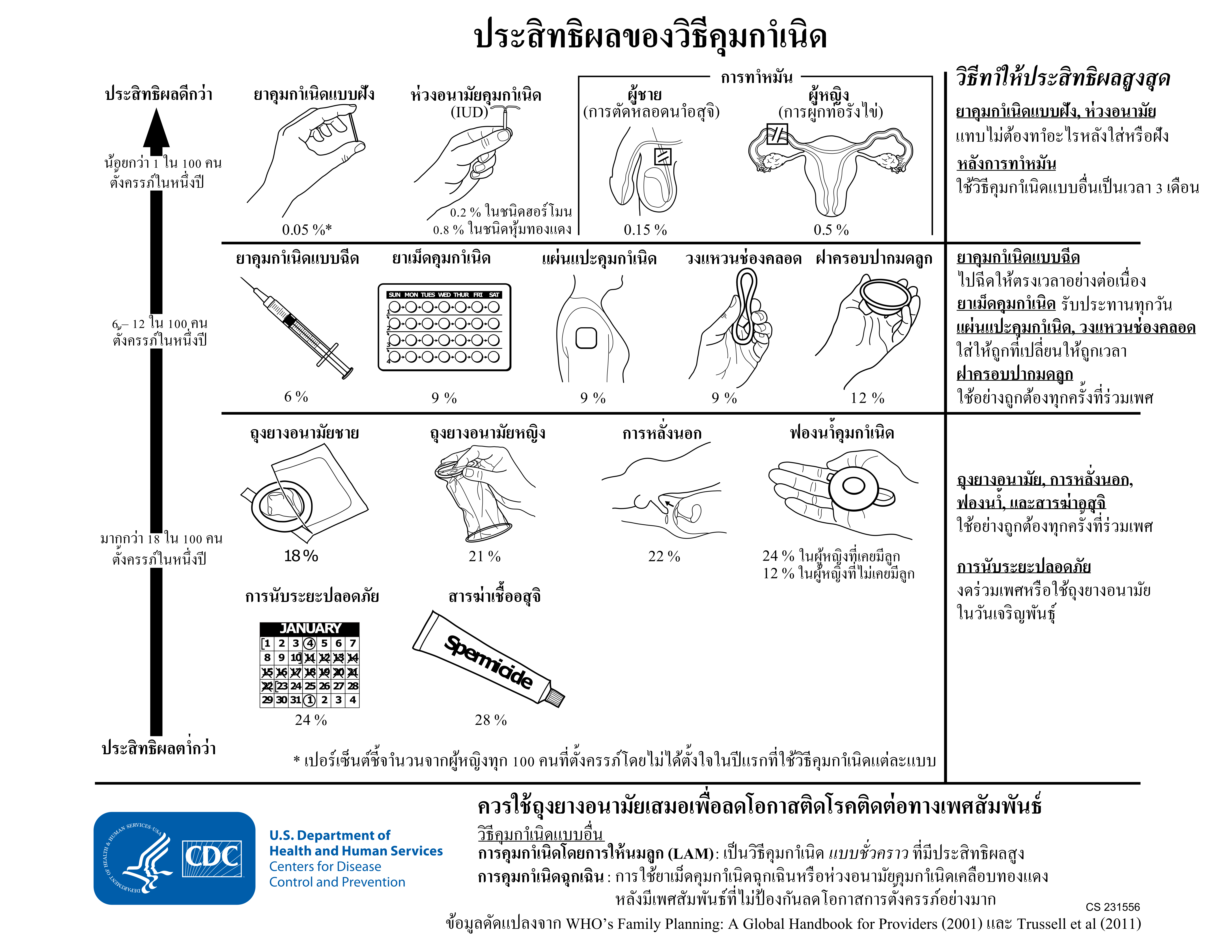 Effectiveness of Contraceptive Methods (in Thai)